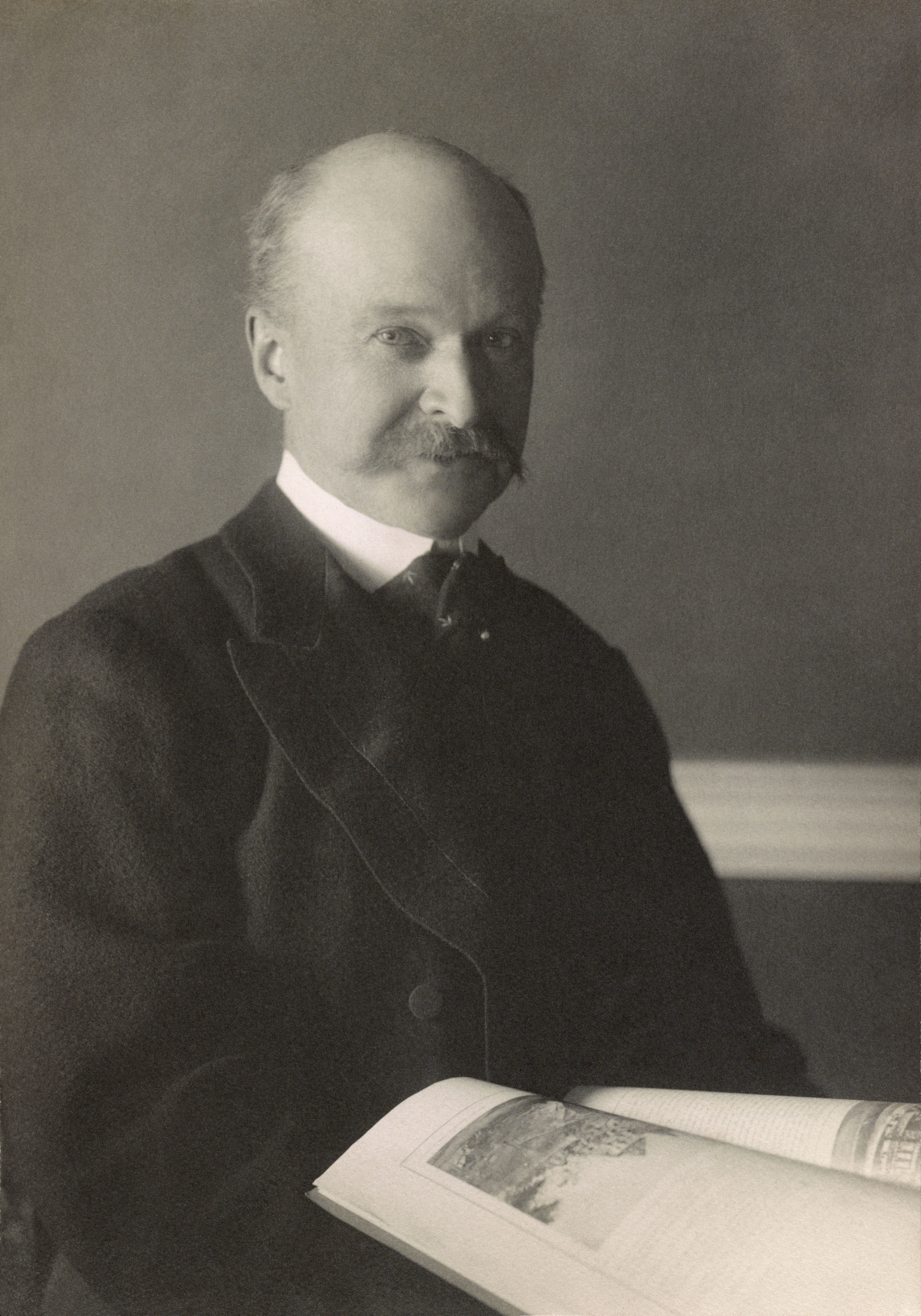 Half length photographic portrait of American architect Charles Follen McKim by Frances Benjamin Johnston, between 1890 and 1909.